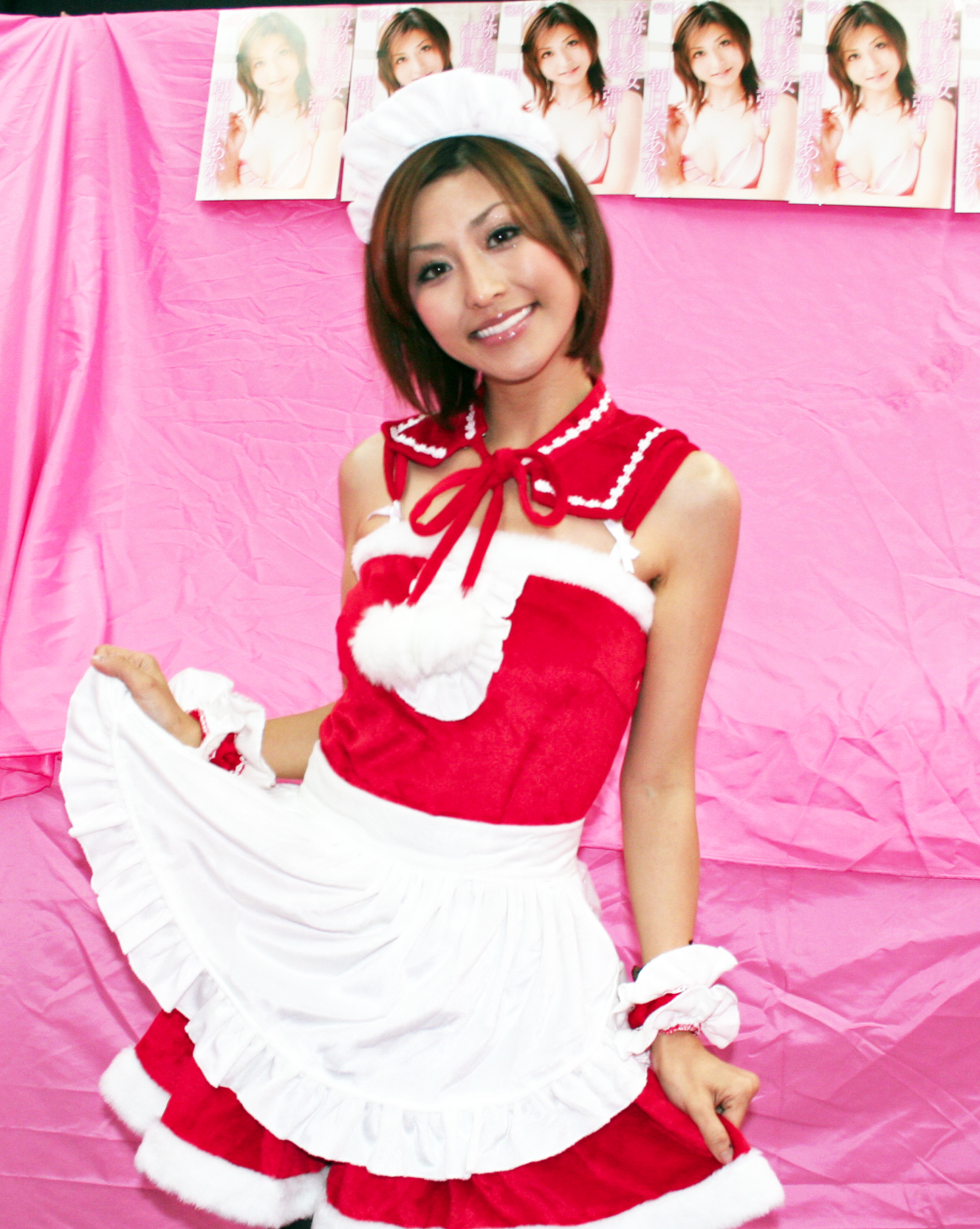 AV actress Akari Asahina at an autograph-signing event in Kobe, Hyogo, Japan.